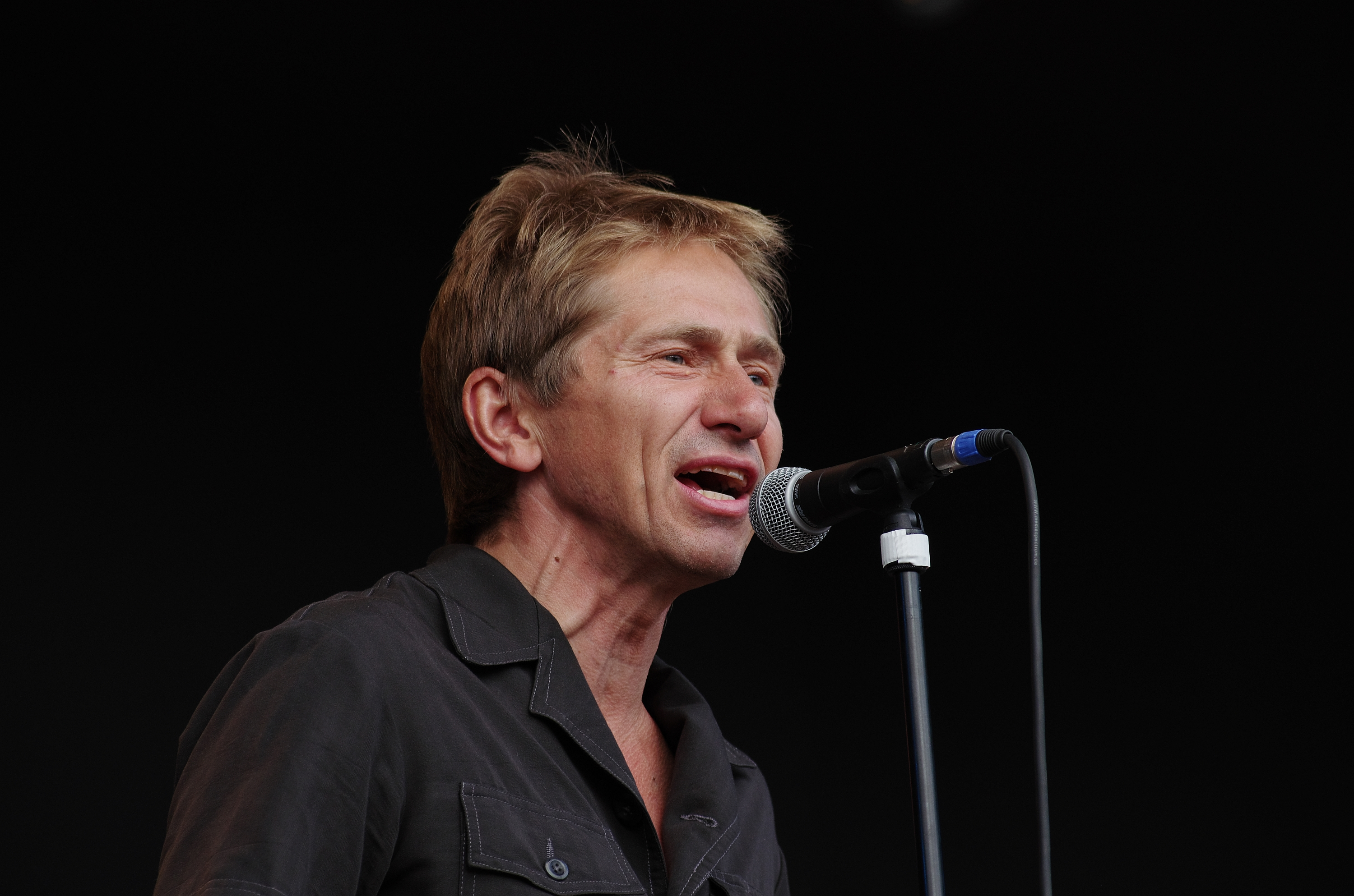 Schorsch Kamerun of Die Goldenen Zitronen at Haldern Pop 2013